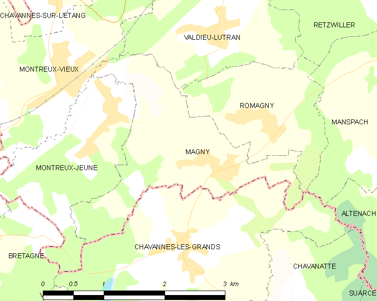 Map of French municipality